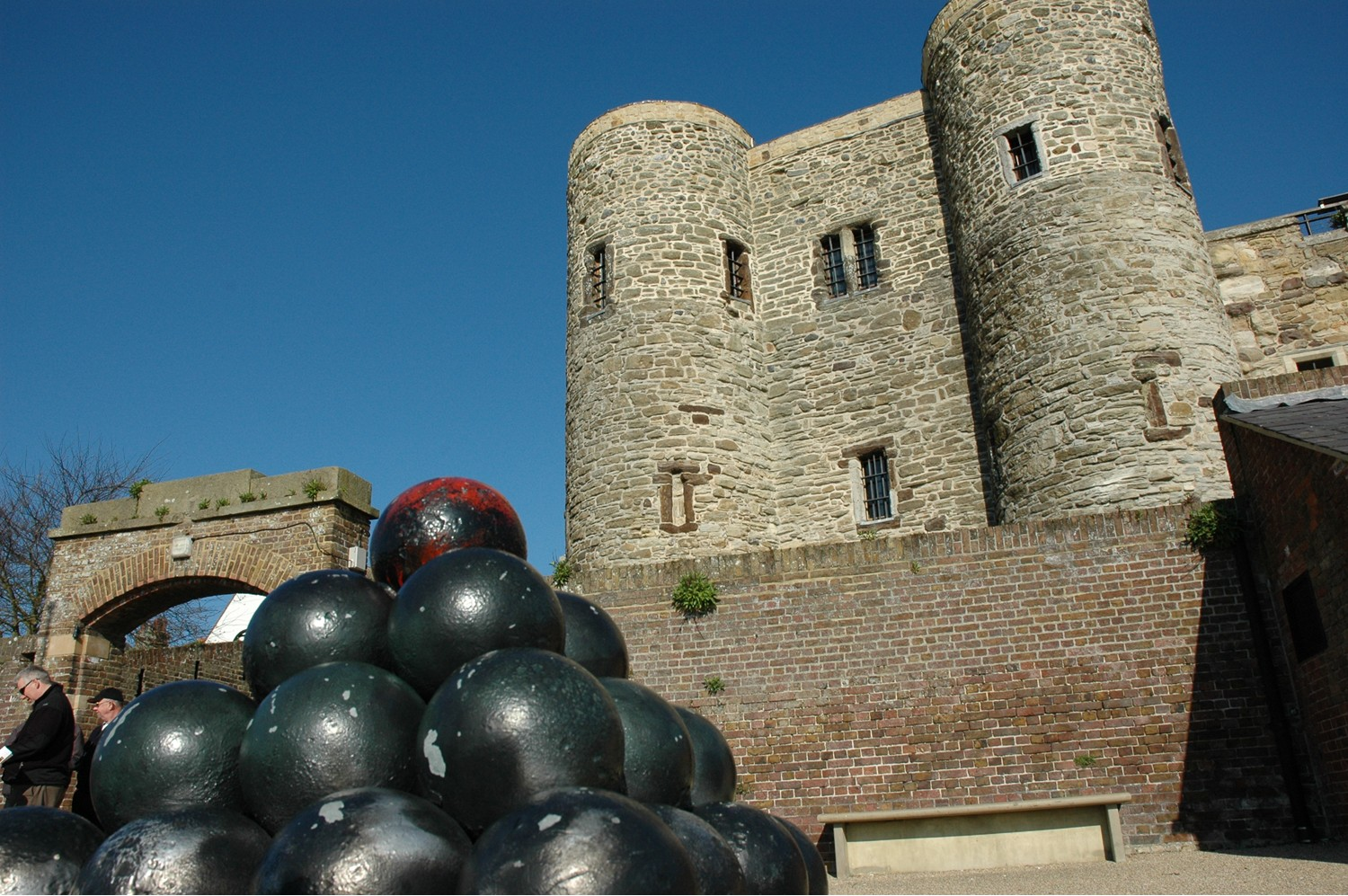 Ypres tower - Rye